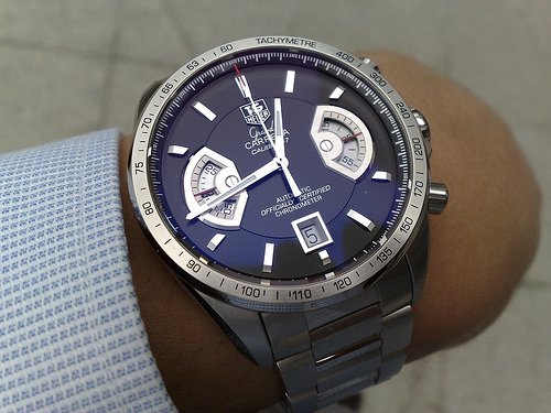 A TAG Heuer Grand Carrera.